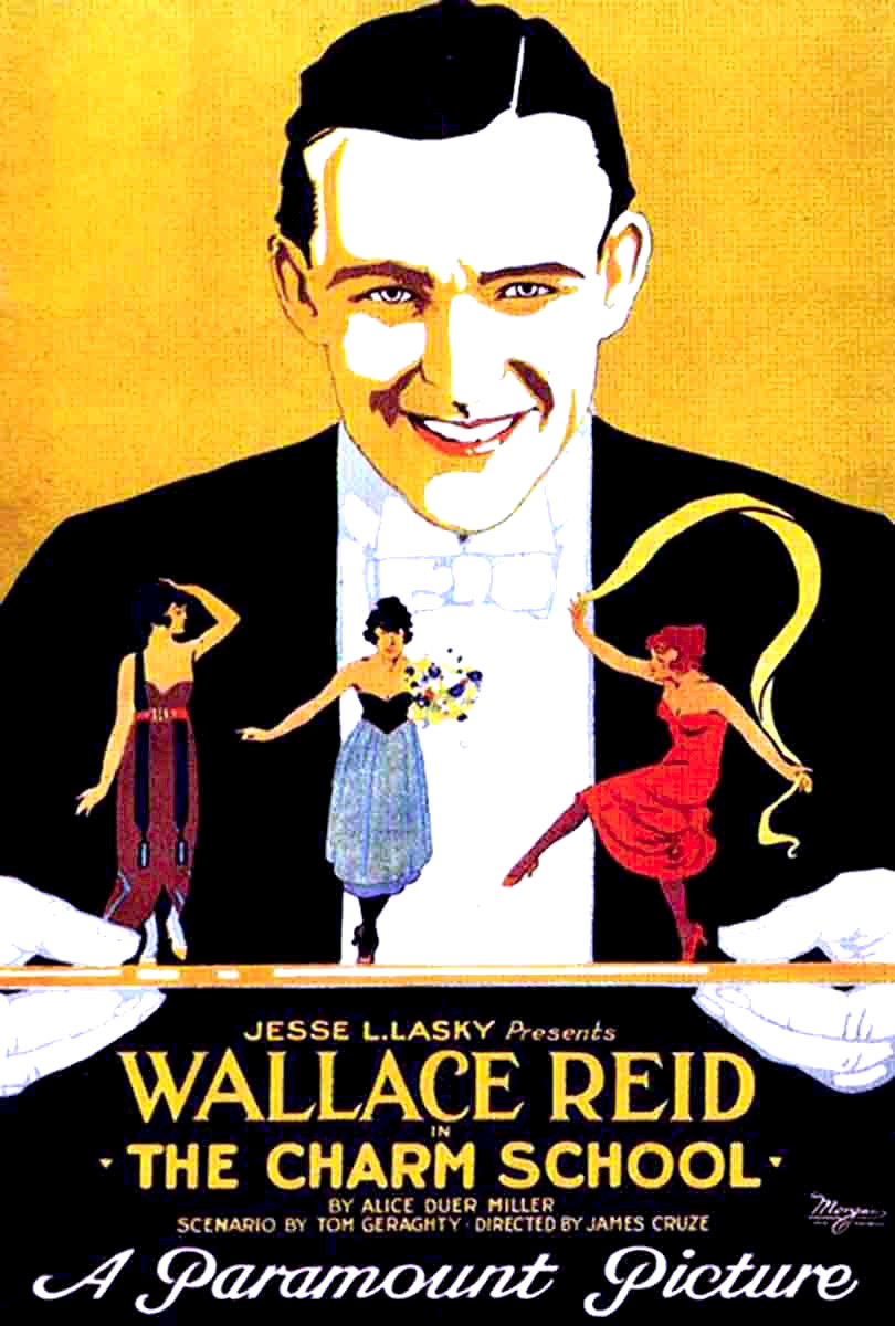 For article The Charm School, this is a theatrical poster for the 1921 film The Charm School, and was first published before 1923.